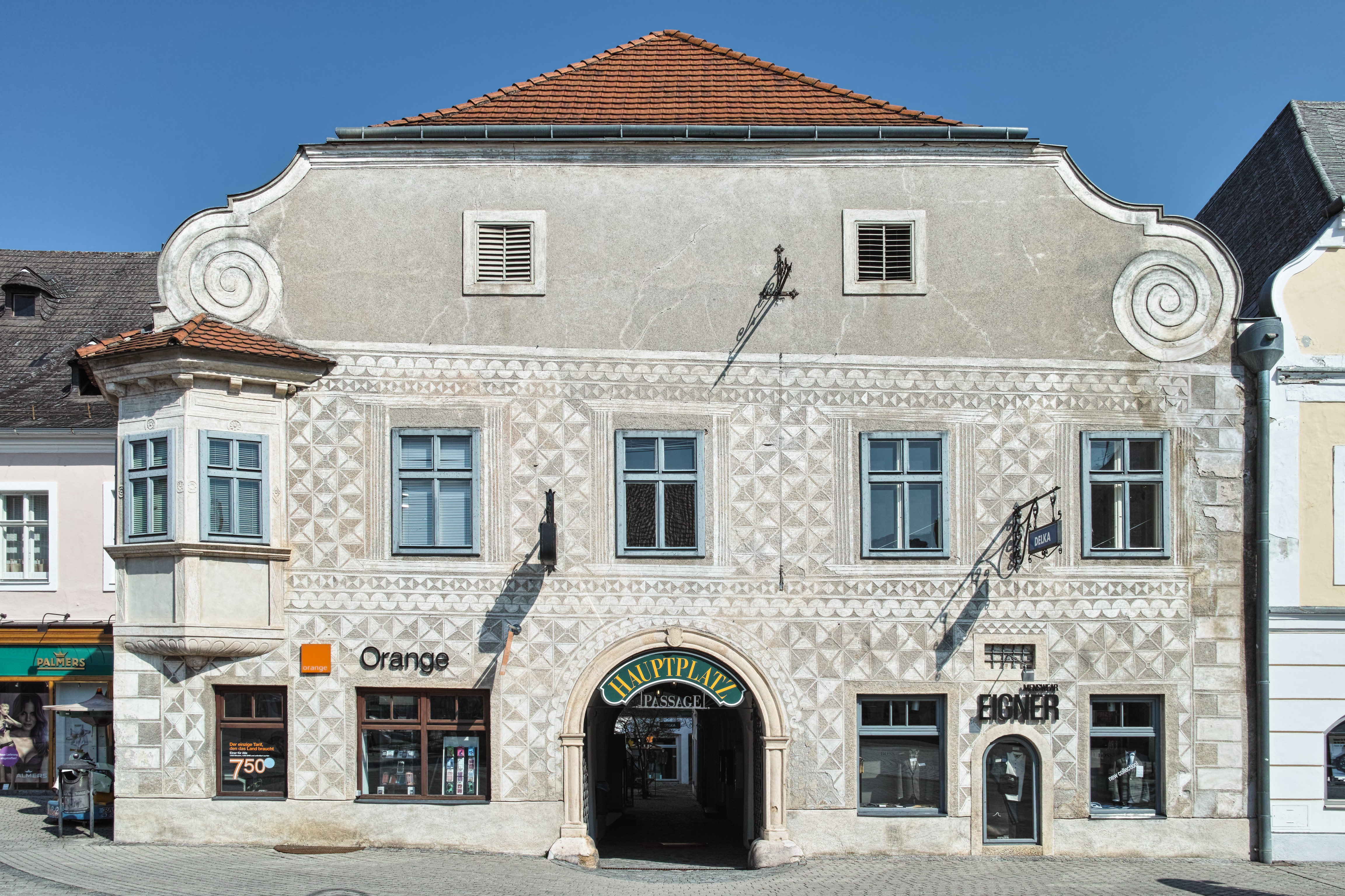 Hauptplatz 11 "Sgraffitohaus" in Neunkirchen, Lower Austria from South-West on March 17, 2013.